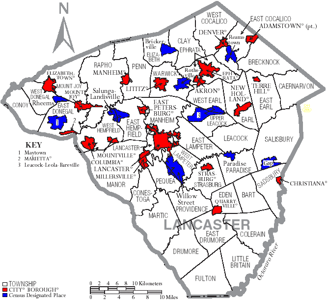 Map of Lancaster County, Pennsylvania, United States with township and municipal boundaries